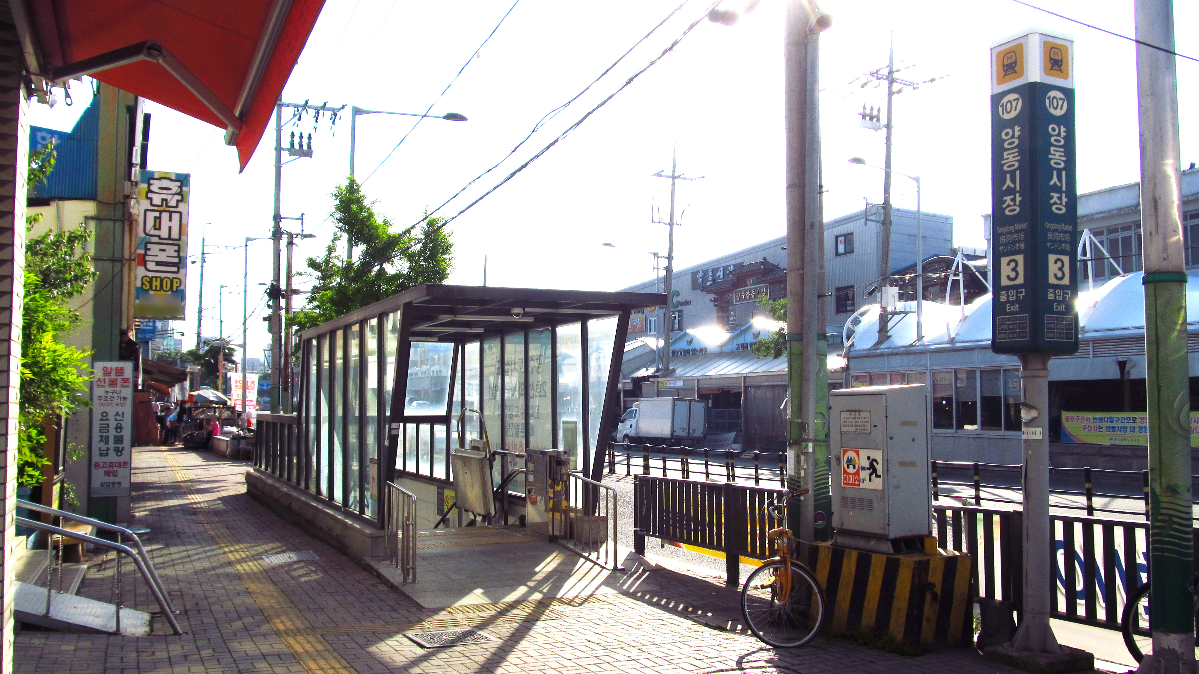 The no.3 entrance to Yangdong Market Station on Gwangju Metro Line 1 in Seo-gu, Gwangju, Republic of Korea(South Korea)